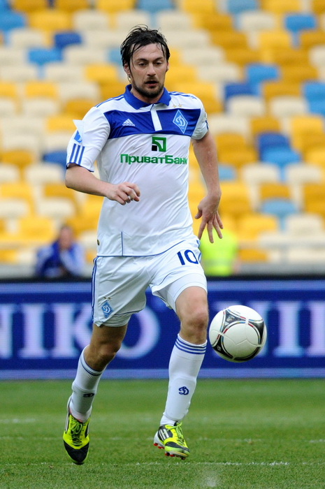 Ukrainian footballer of Dynamo Kyiv Artem Milevskiy during match against Vorskla Poltava.